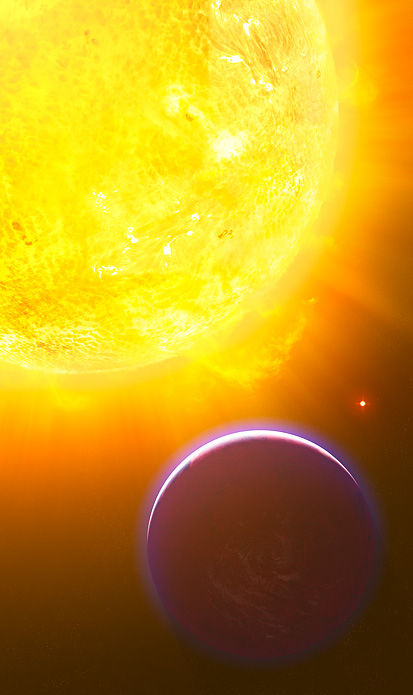 The exoplanet Saffar (Upsilon Andromedae b) is shown in orbit around its parent star, at a close proximity that causes its atmosphere to glow incandescently. Because the planet is tidally-locked, the dark side of Saffar is cool enough for high-altitude clouds to form.